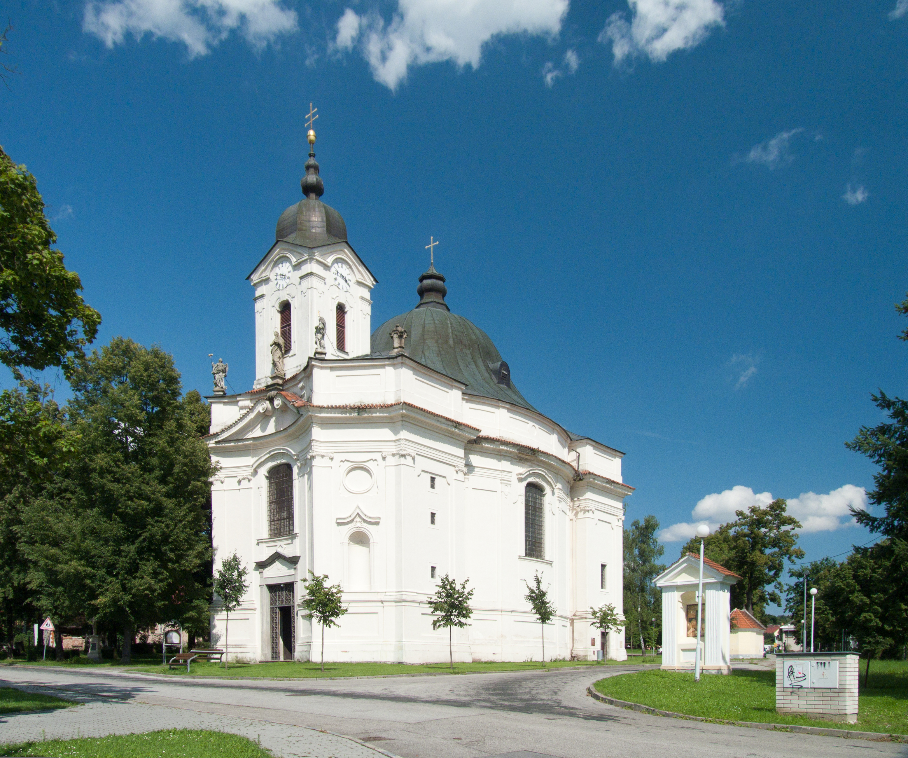 Virgin Mary Church in the village of Dobrá Voda u Českých Budějovic, České Budějovice District, Czech Republic